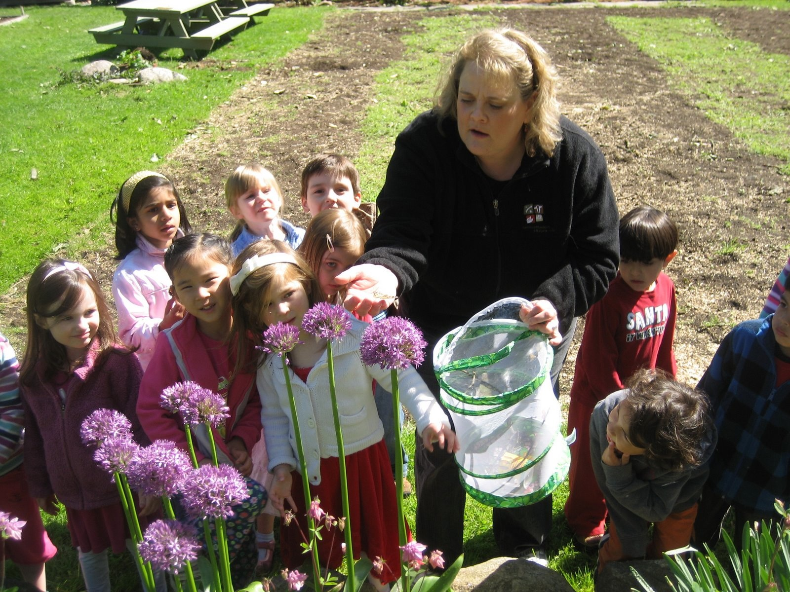 Preschool at SM&NC